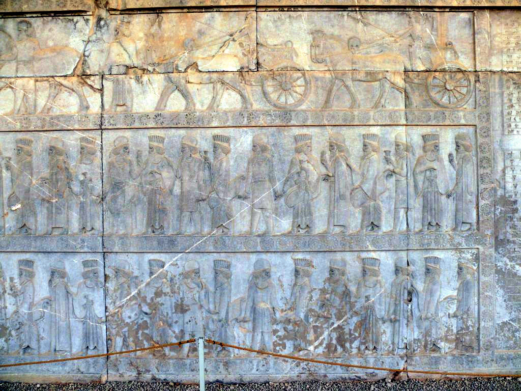 Relief of the North Panel, Eastern Stairway, Apadana Palace, Persepolis, Iran